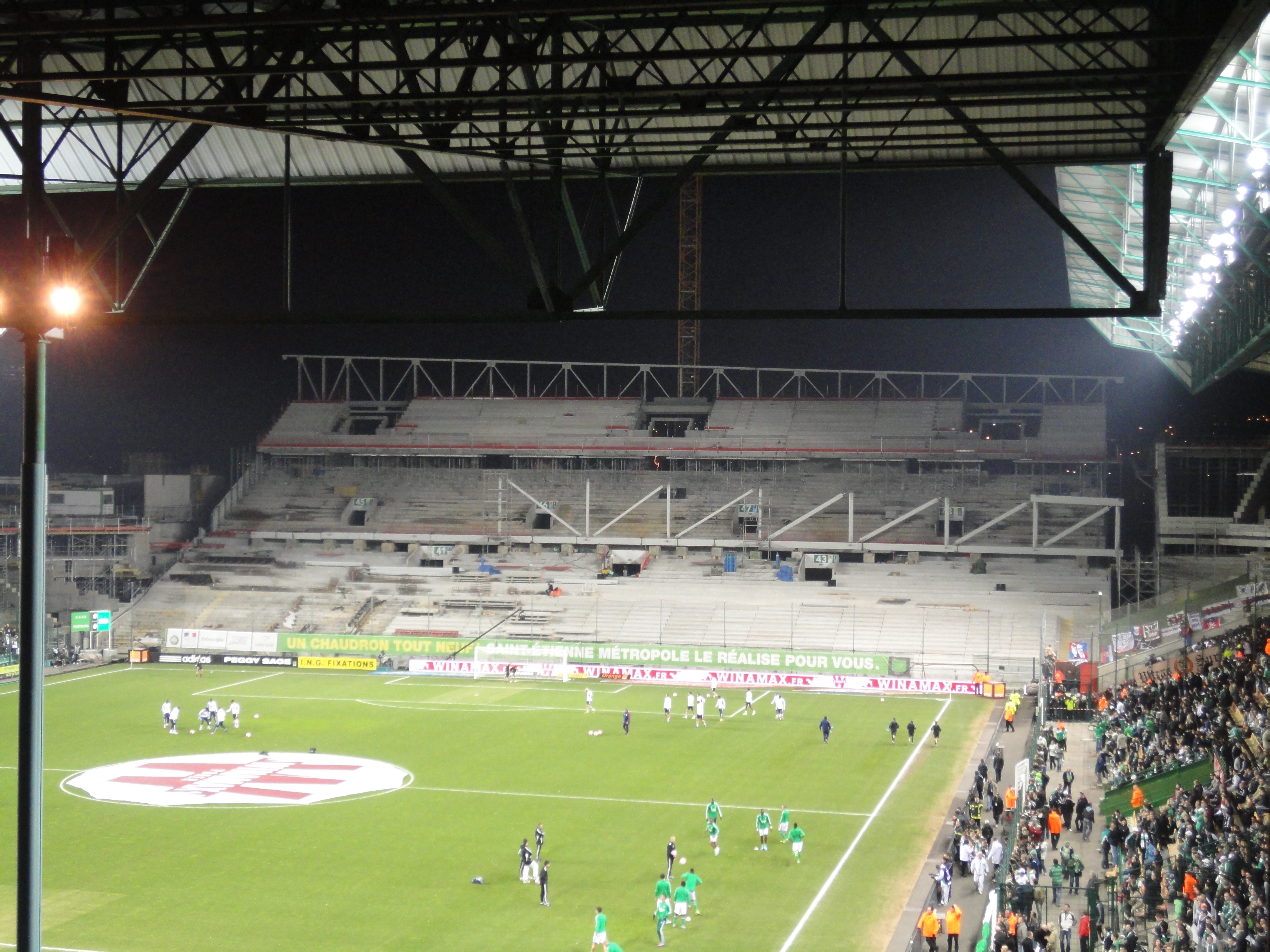 Charles Paret stand under reconstruction for the renovation of Geoffroy-Guichard stadium for Euro 2016, on March 17th 2012 (Saint-Etienne, France).